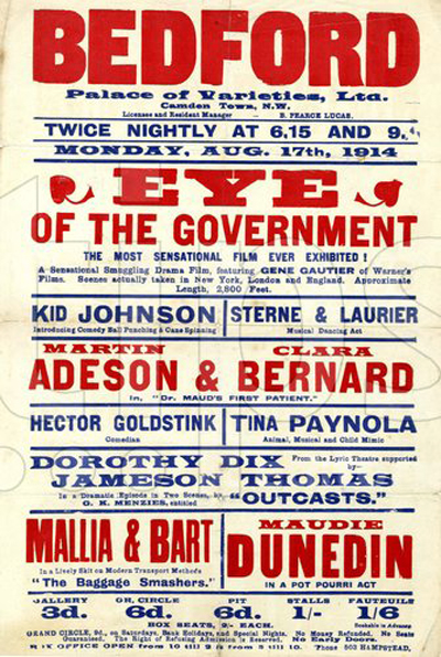 EYE OF THE GOVERNMENT ; film starring Gene Gautier and Sidney Olcott ; Variety poster ; also featuring: Kid Johnson, Sterne and Laurier, Martin Adeson and Clark Bernard, Mallia and Bart, and Maude Dunedin ; at the Bedford Palace of Varieties, Camden, London, UK ; August 1914 ; Credit : Univeristy of Bristol / ArenaPAL